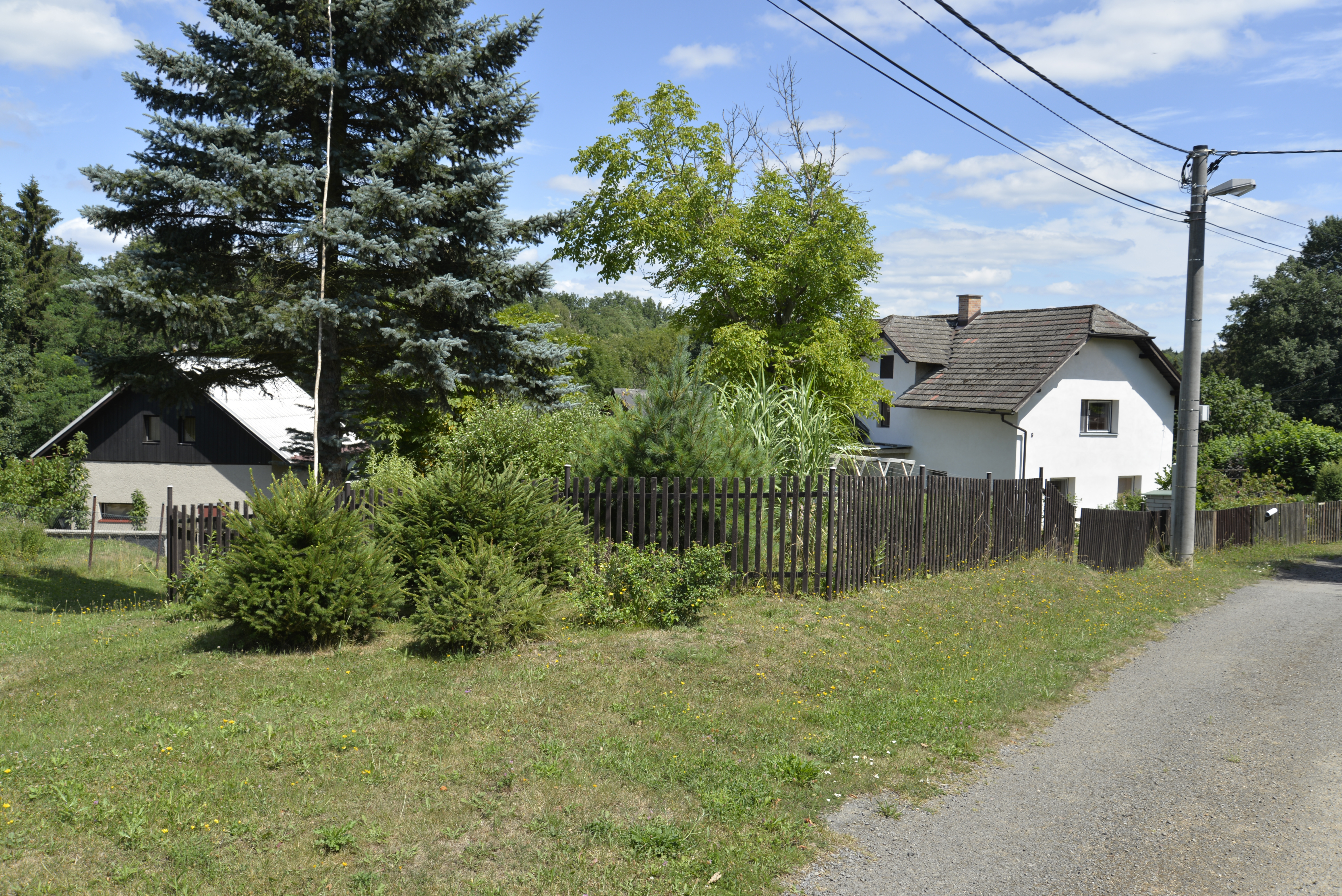 Settlement Jirsko 1.díl, part of the village Sezemice